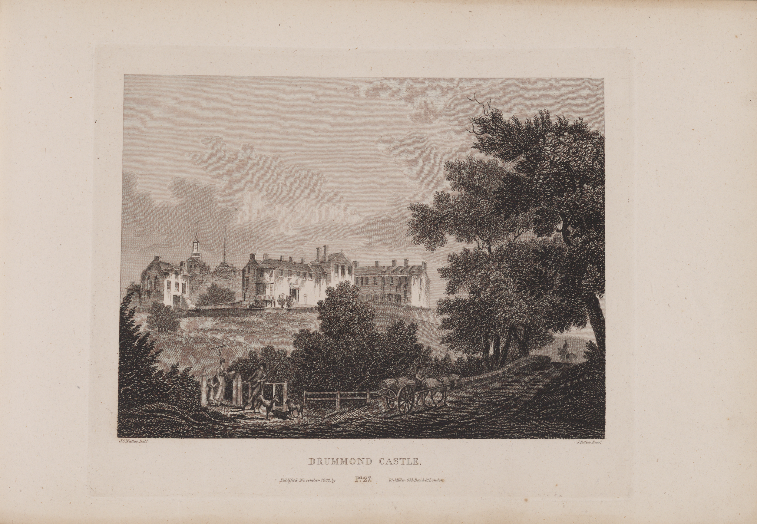 Plate XXVII/b - John Claude Nattes made drawings of suitable scenes on the spot; etchings are by James Fittler.